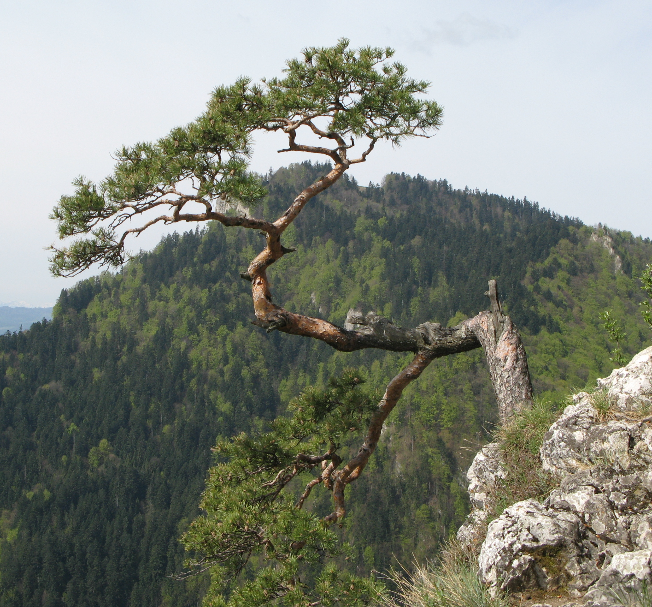 Pinus sylvestris on Sokolica, Pieniny, Poland